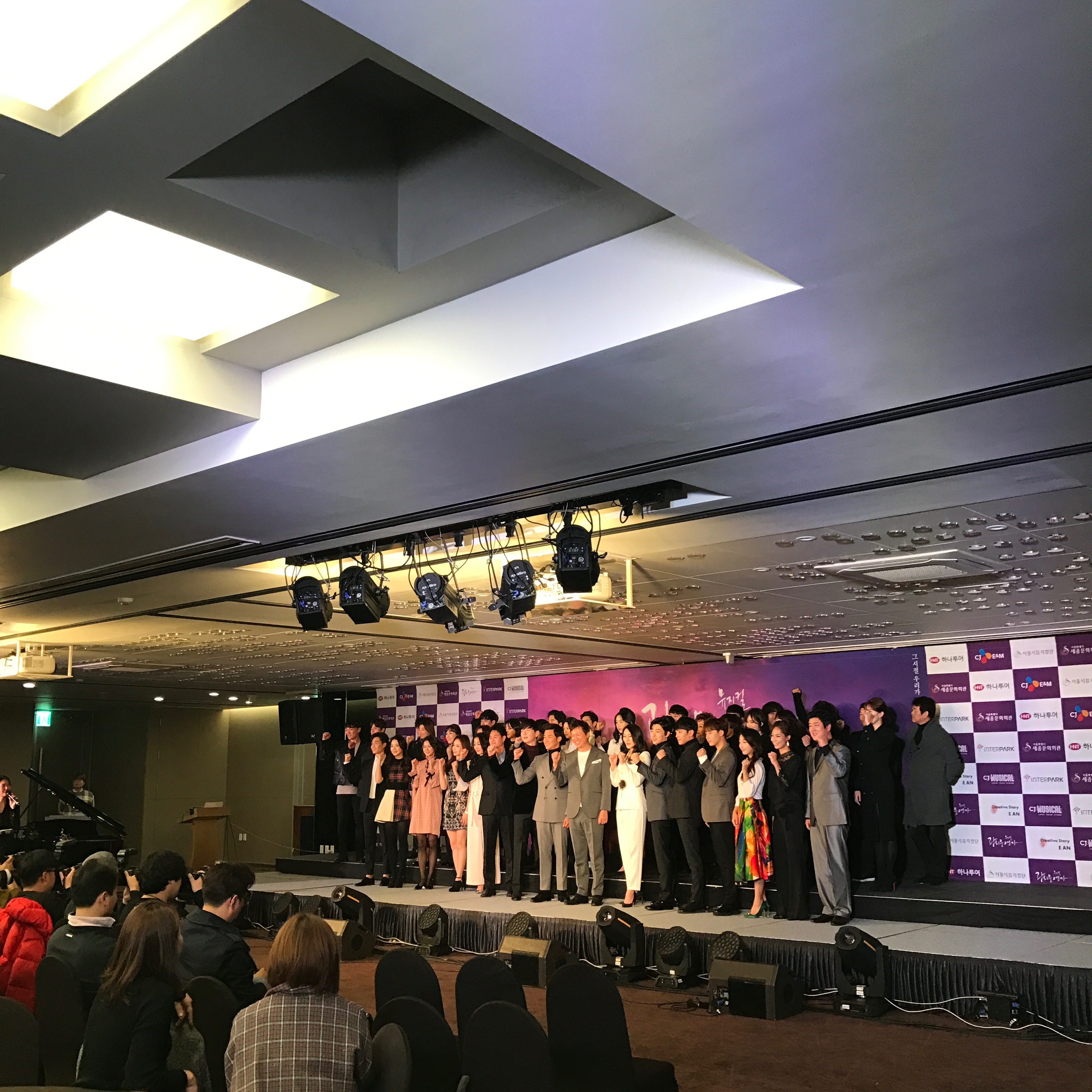 production presentation